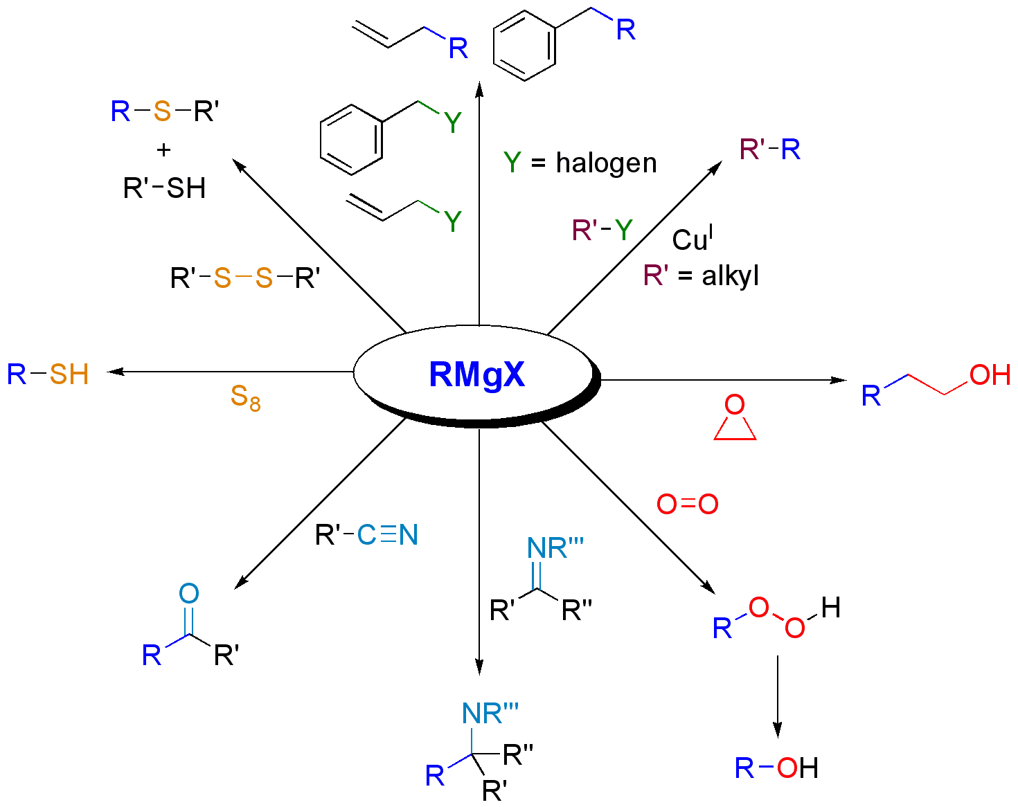 Overview of the reaction of Grignard reagent with hyteroatom compounds.